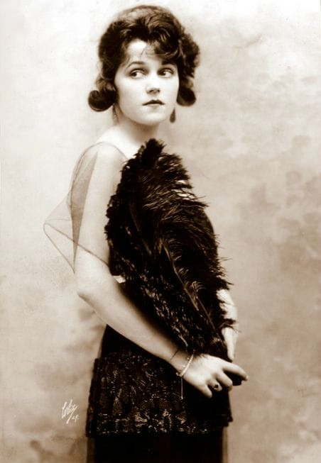 Portrait of American actress Alice Brady (1892–1939) by Albert Witzel (Witzel Studios, L.A.)